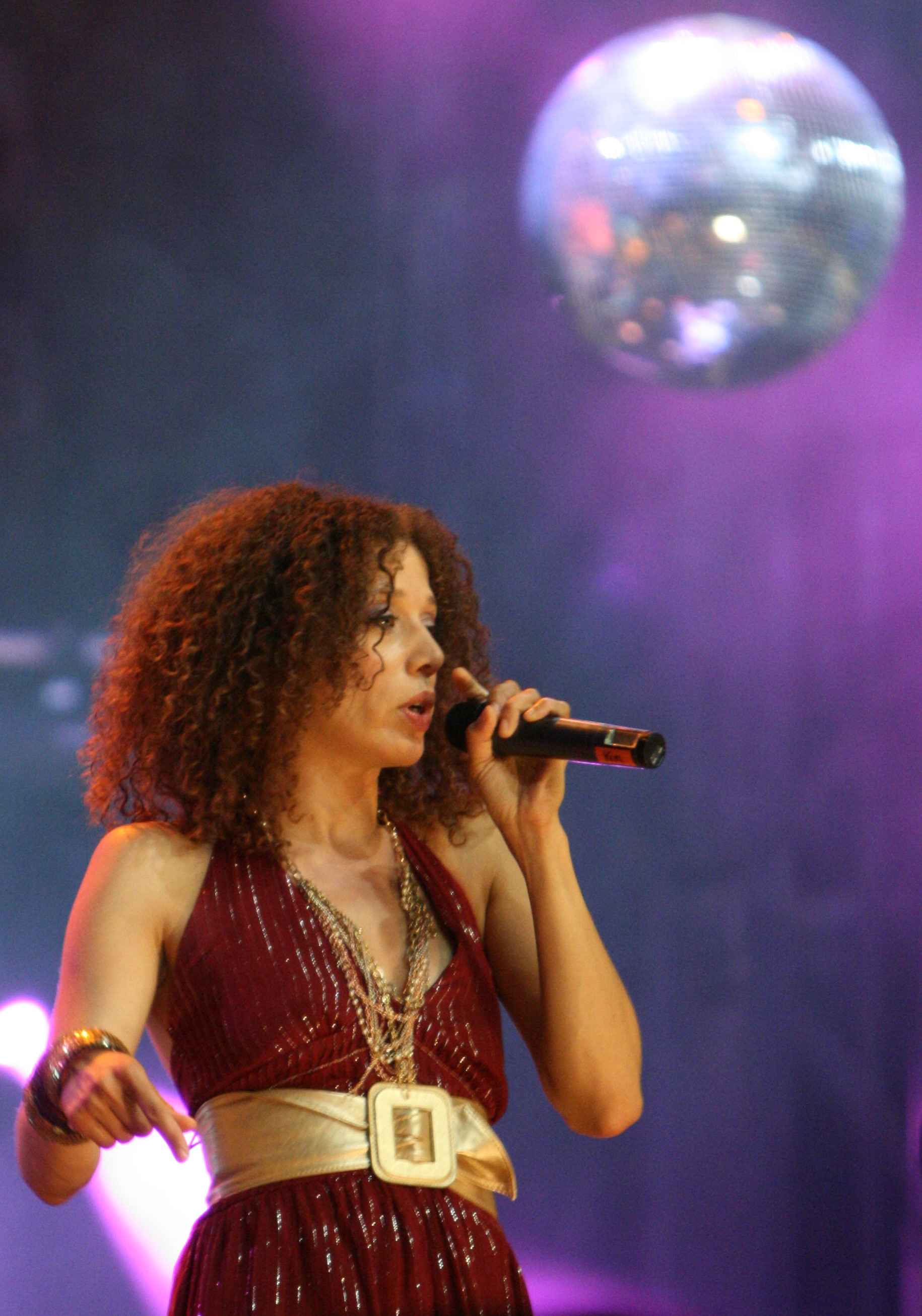 Kim Bingham performing at the Bran Van 3000 Concert @ Montreal Jazz Festival 2008, Place des Arts, Montreal, Canada on July 1st 2008. Kim Bingham est une chanteuse et compositrice canadienne.